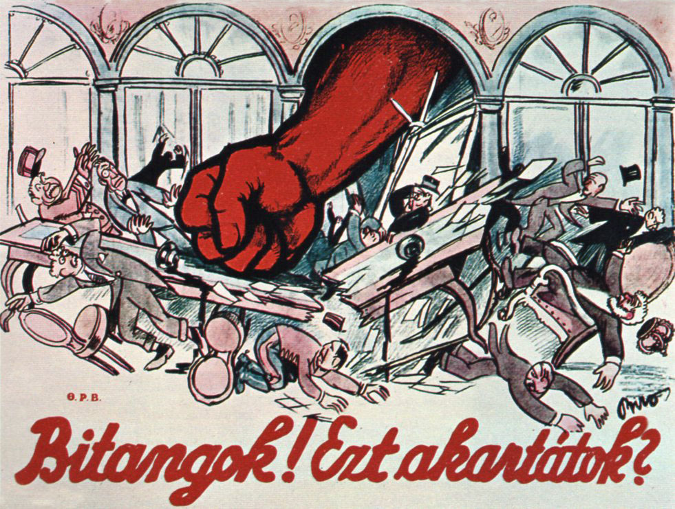 Hungarian Communist poster from Mihaly Biro, 1919 : "Rascals ! did you want this?". At left, Lloyd George, Woodrow Wilson. At right, King Fredinand of Romania.